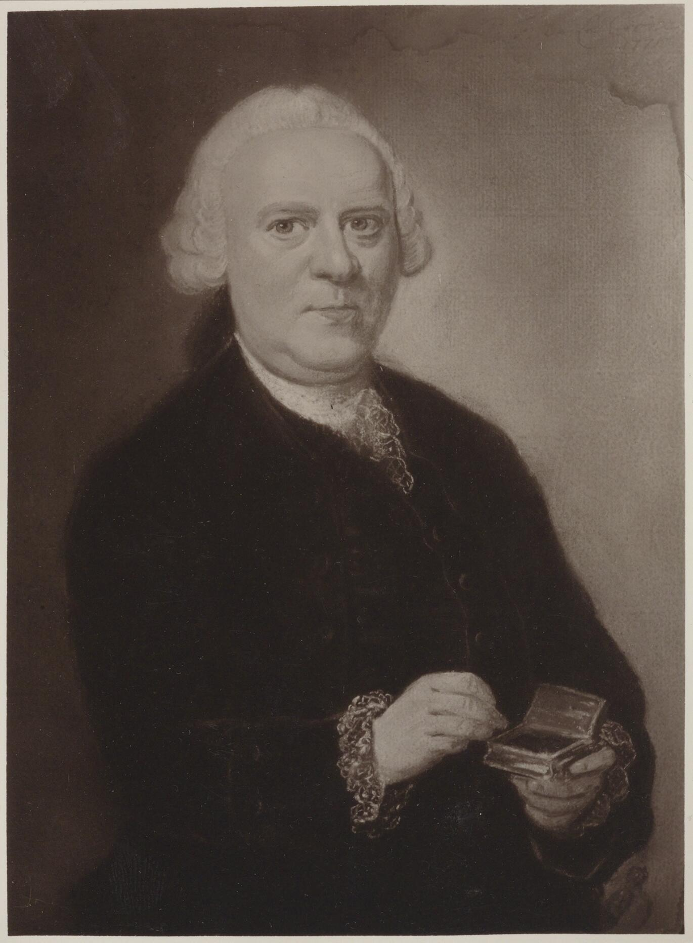 this person is Vincent van Eijck and not Martinus van Toulon!! see: RKD